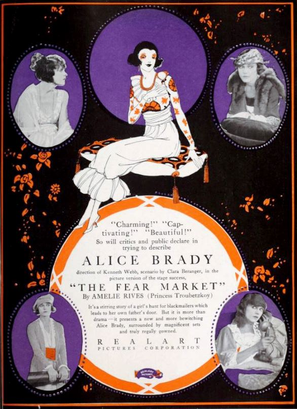 Advertisement for the American drama film The Fear Market (1920) with Alice Brady, from the insert after page 18 of the March 20, 1920 Exhibitors Herald.